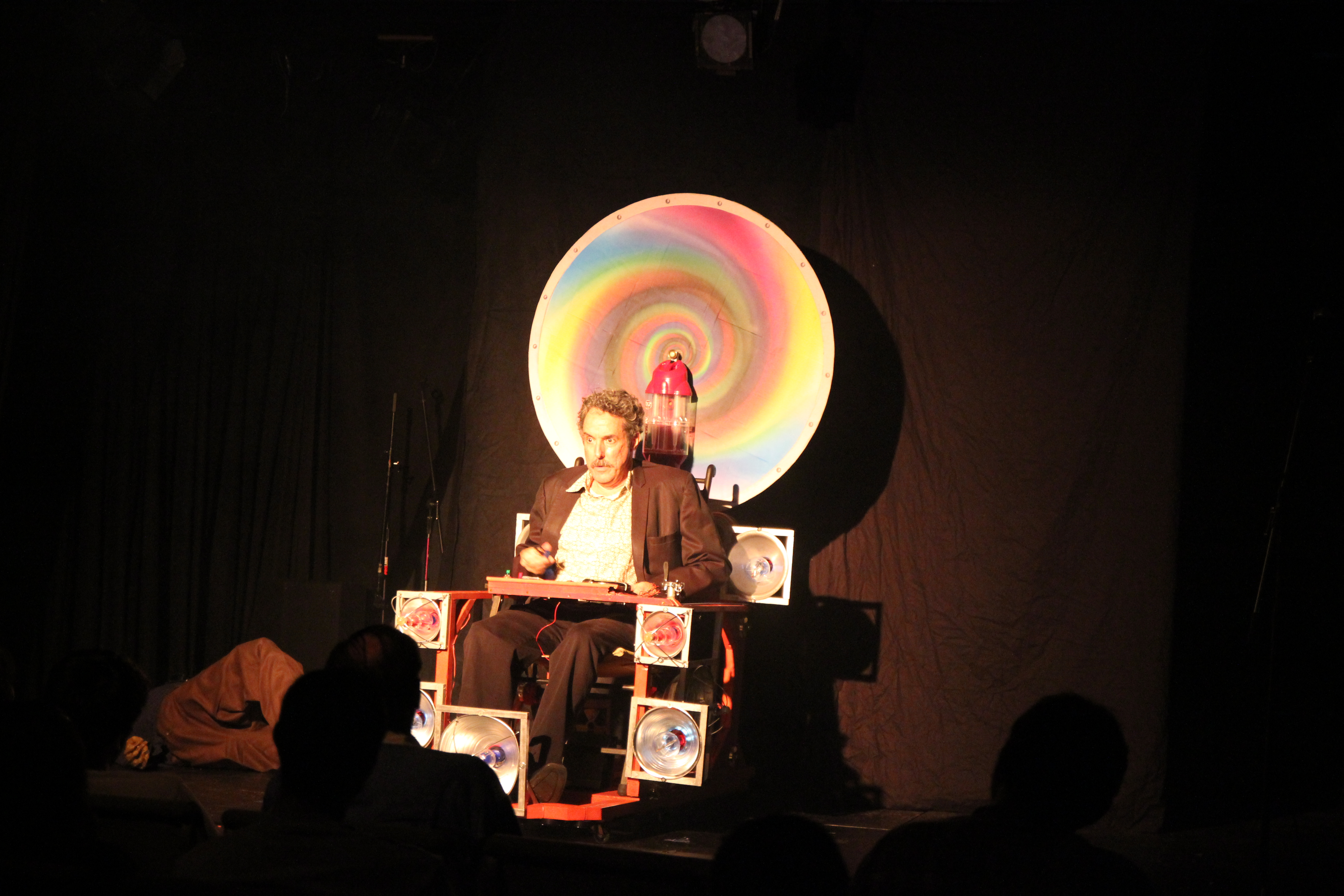 Ron Lynch in time machine at the Tomorrow comedy show, the Steve Allen Theater.